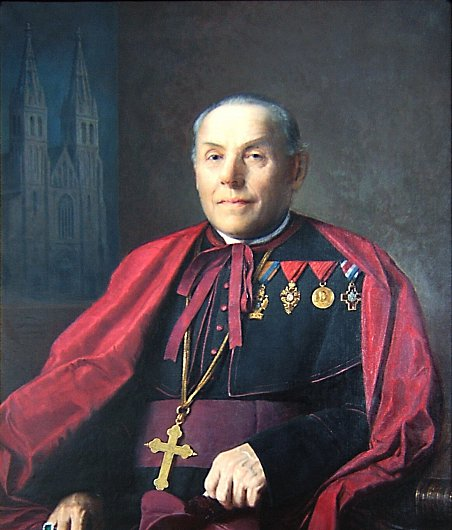 Portrait of Mikuláš Karlach (1831-1911), Czech priest, provost of Vyšehrad Chapter.